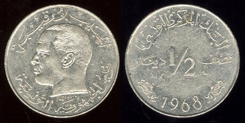 Half TND, 1968, Tunisia.